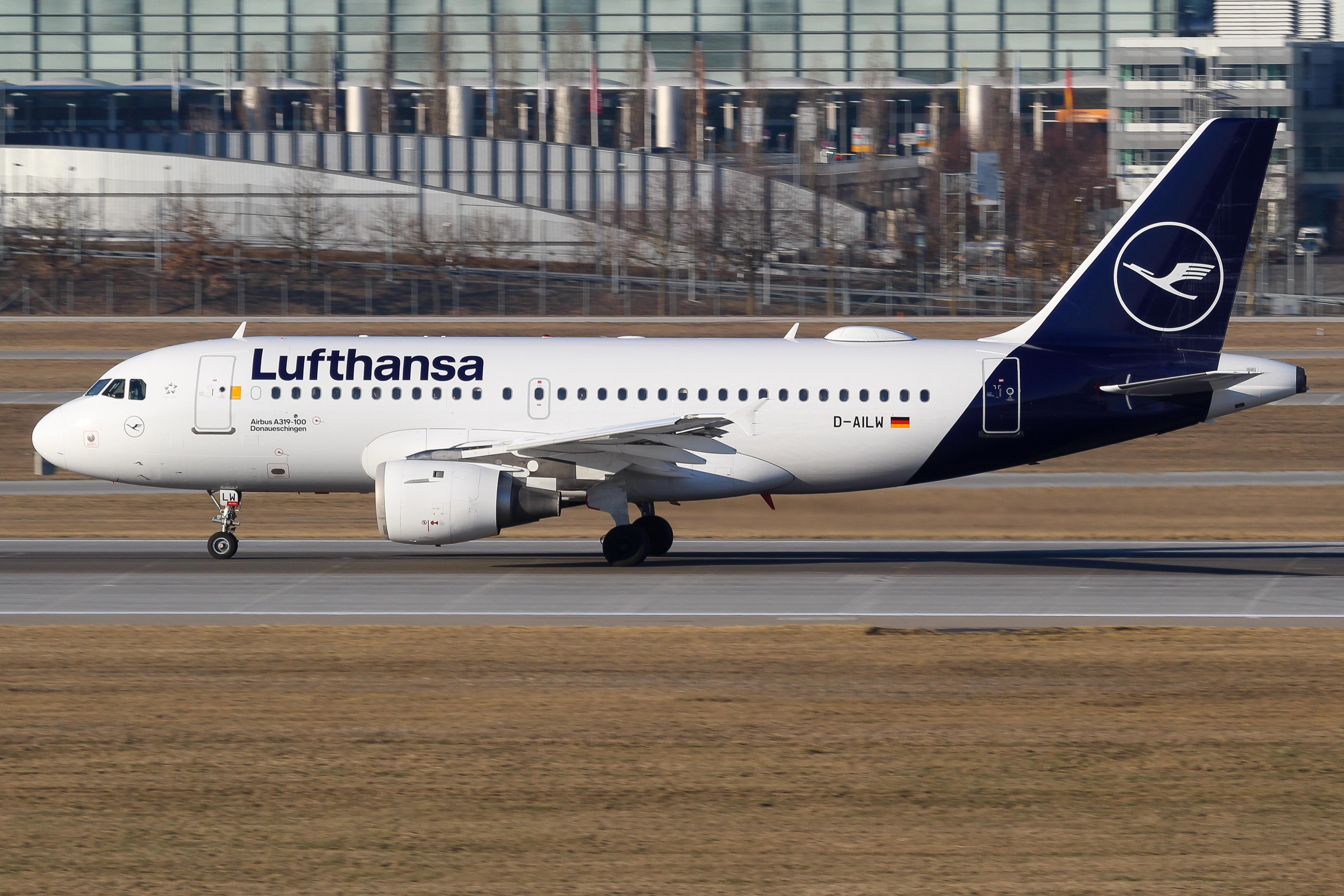 Lufthansa Airbus A319 at Munich Airport.